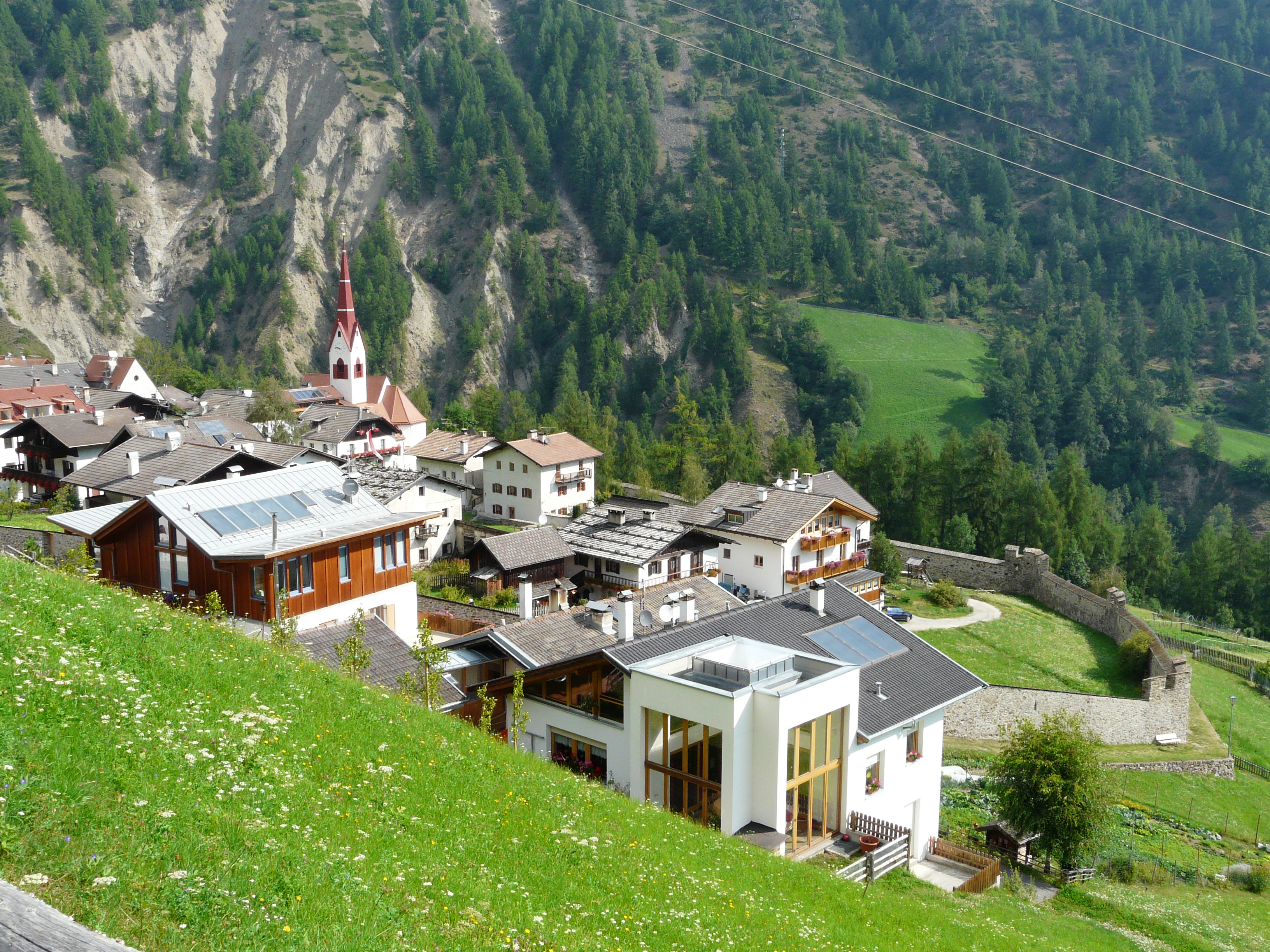 Karthaus, Schnalstal